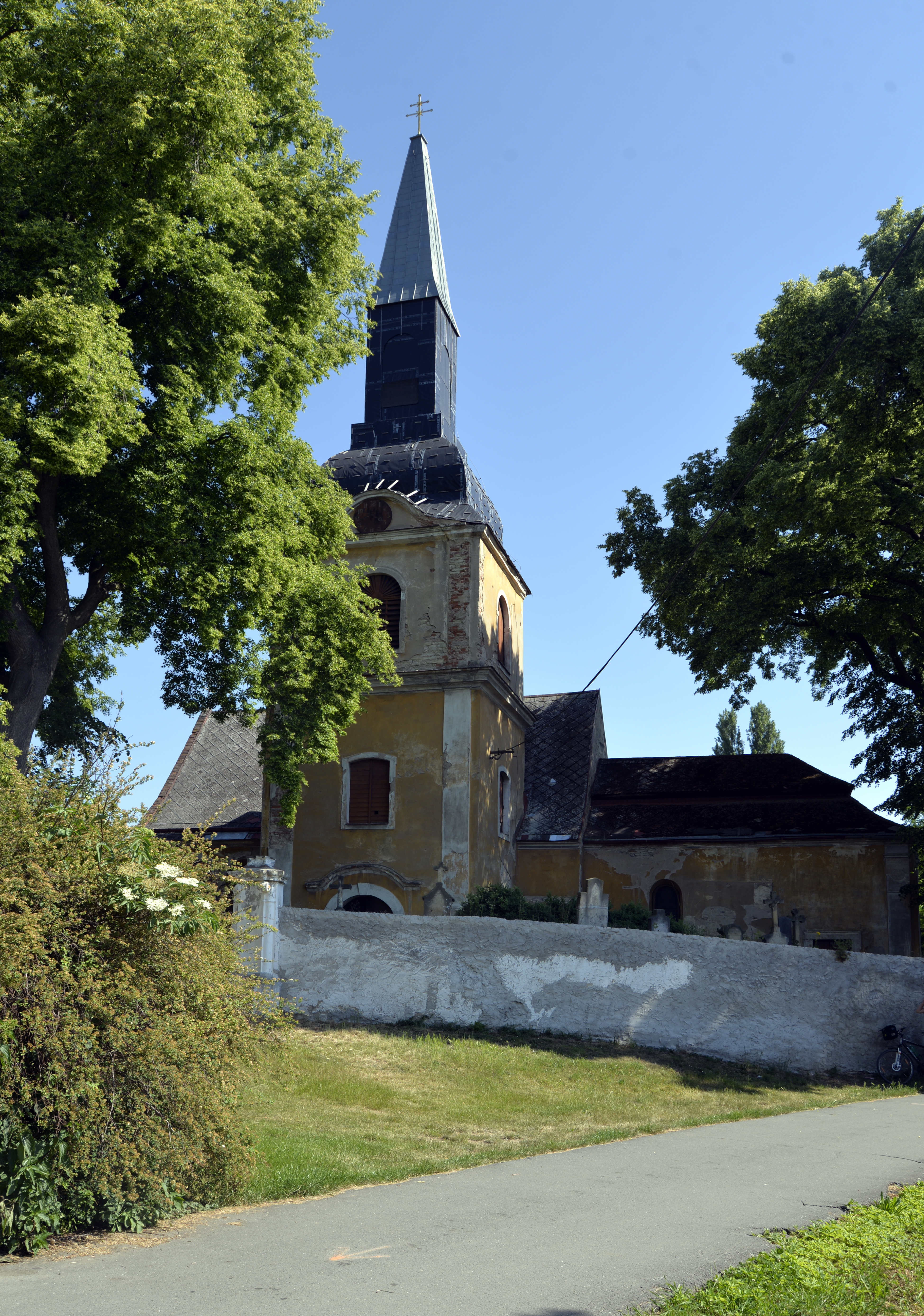 Saint Vitus church in Kovanice